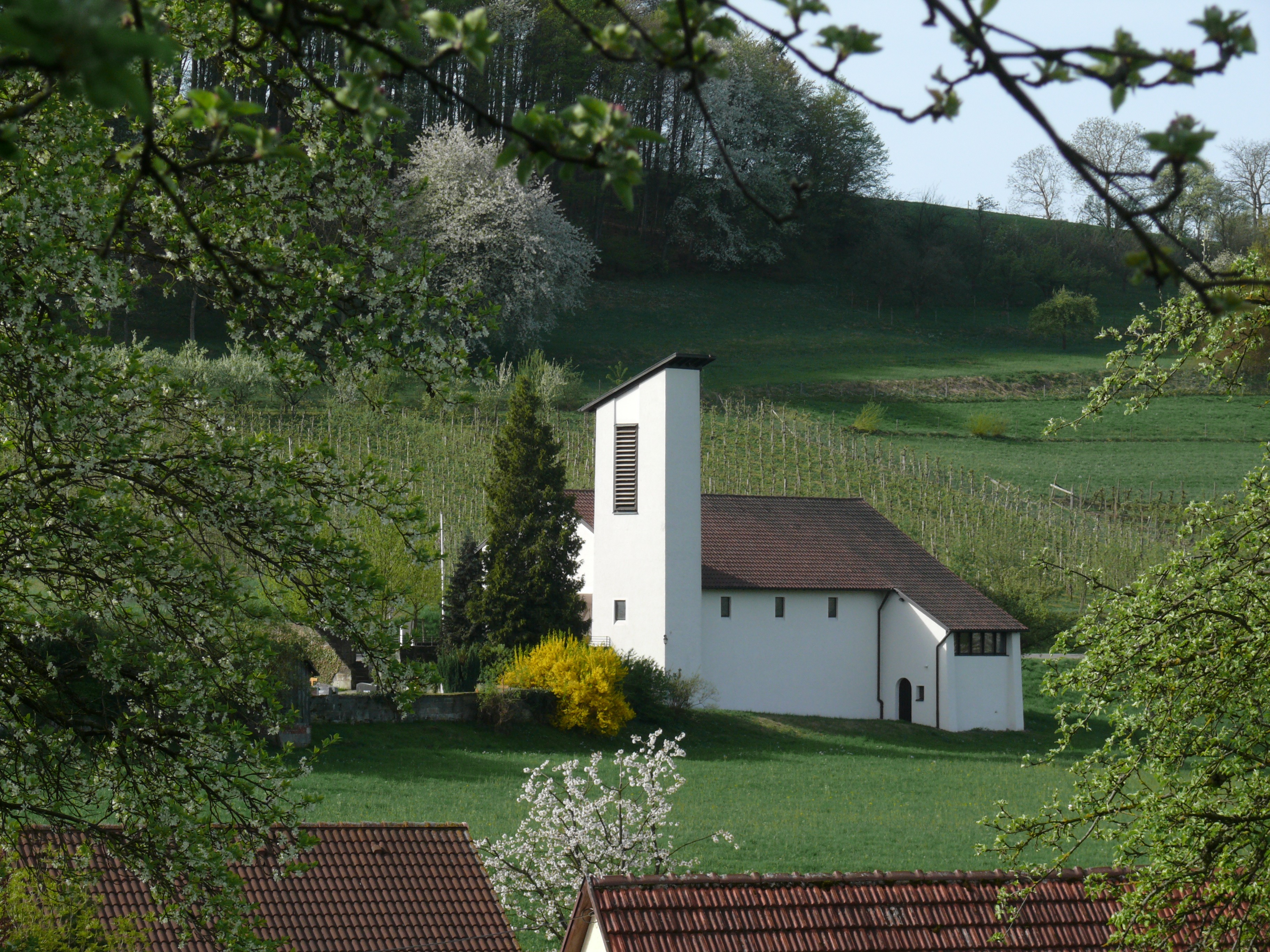 The Johanneskirche in Billensbach (a district of Beilstein, Baden-Württemberg, Germany), seen from north, between fruit trees in blossom. — The land lot on which the fruit trees visible in the foreground grow is used for building a house. Therefore this view (April 2011) is lost today (2013) or will be lost in near future.